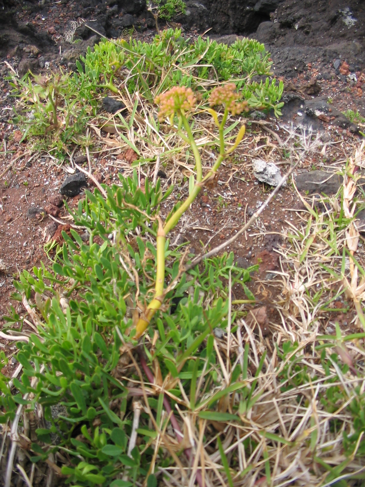 Meerfenchel (Crithmum maritimum) - Habitus